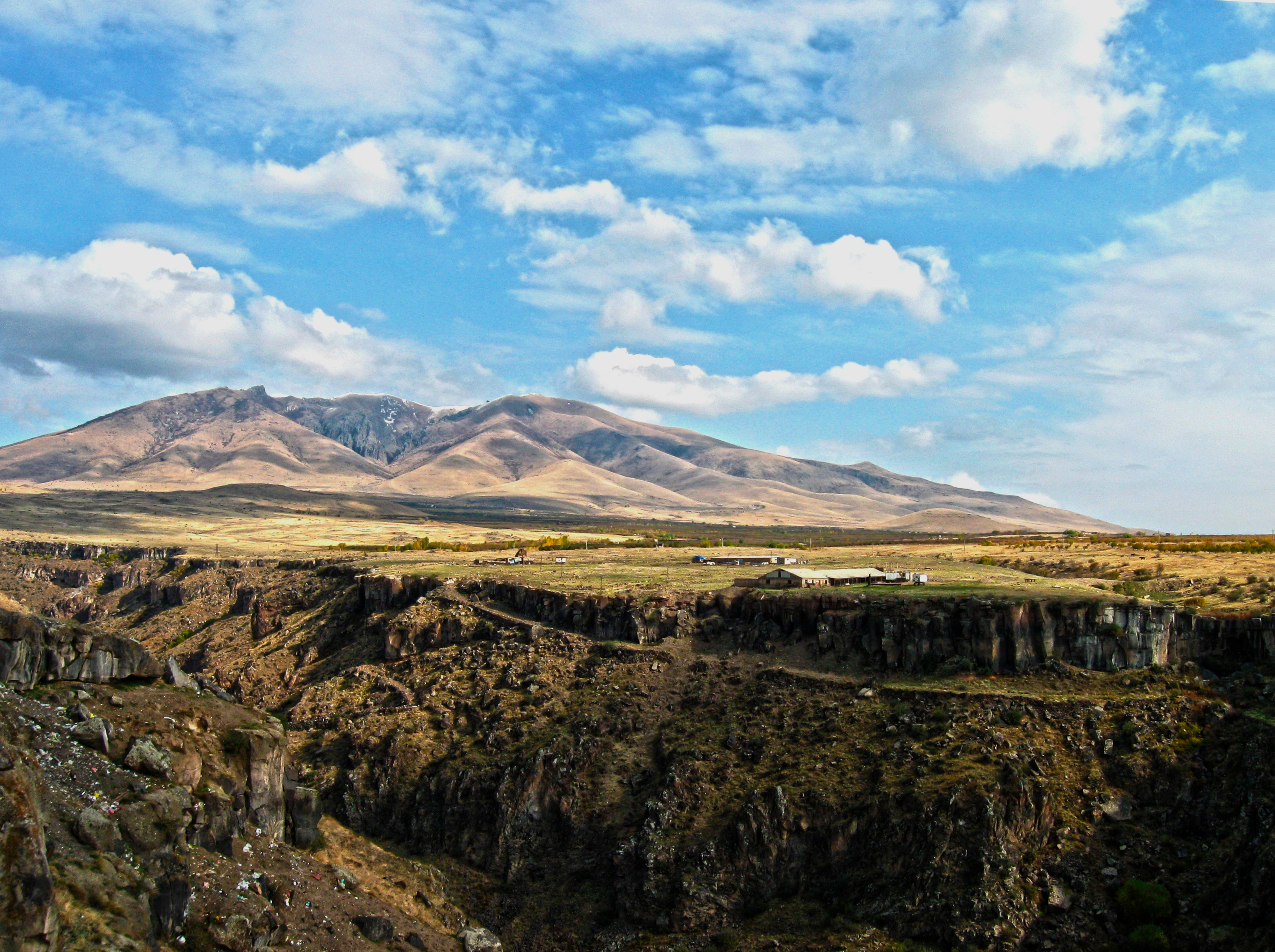 Kasakh Canyon, a nature-historical monument, as seen from the village of Ohanavan